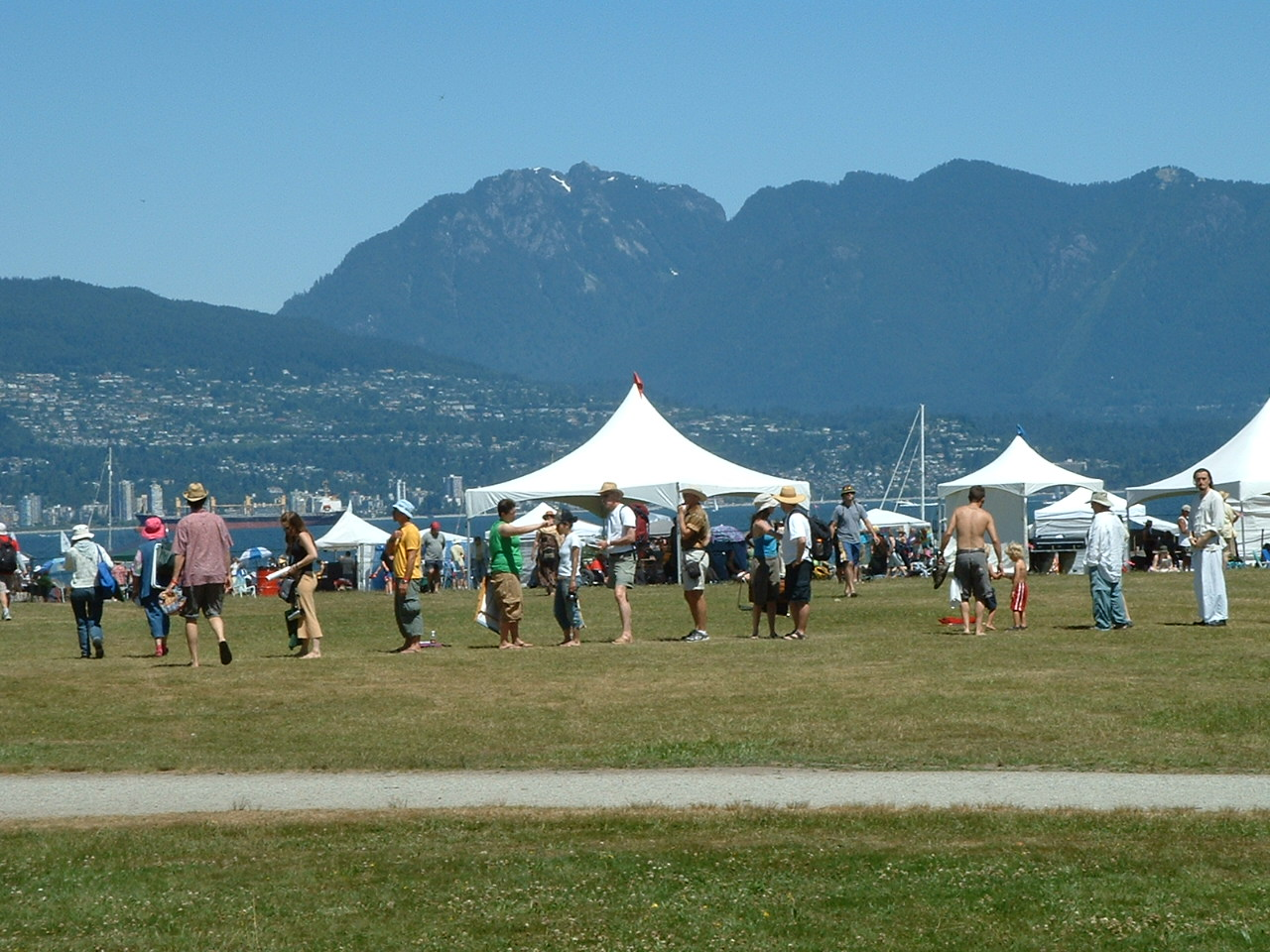 A crowd at the 2006 Vancouver Folk Music Festival.